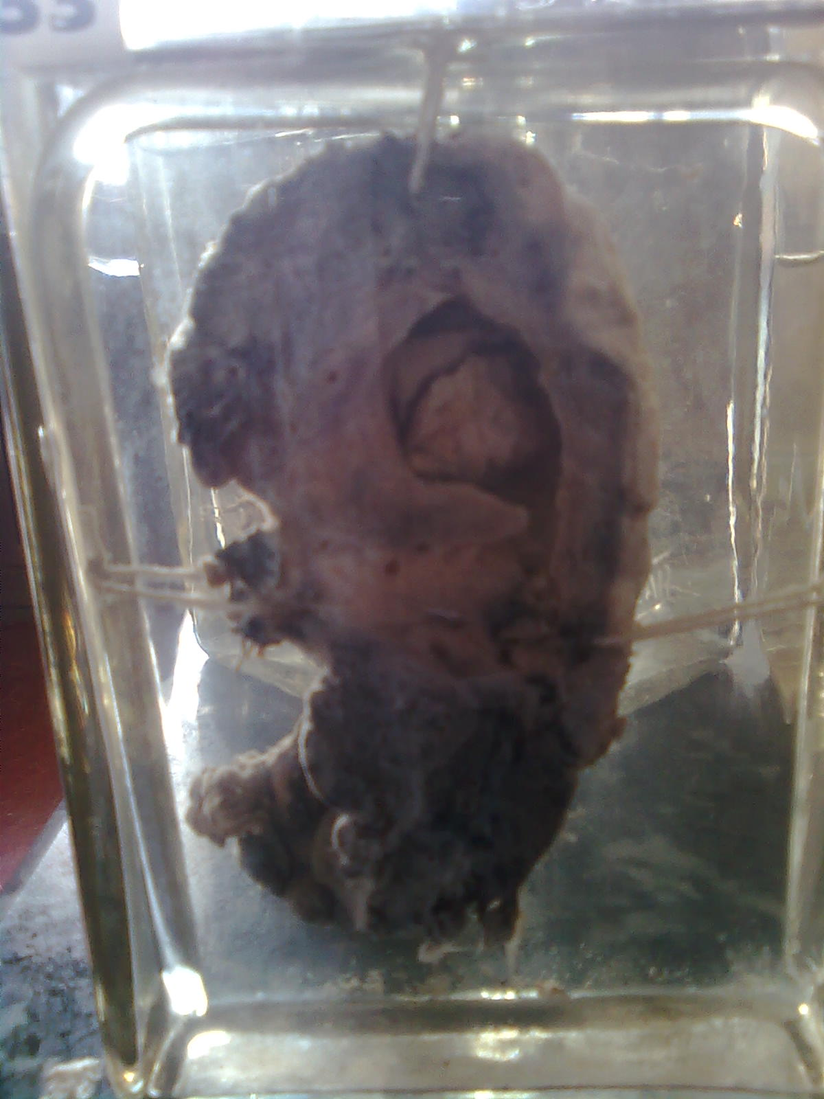 Gross specimen of the lung showing Aspergilloma of the lung